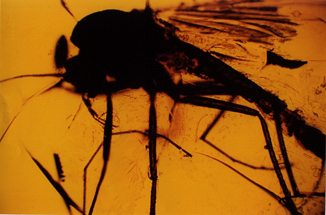 Amber - the fossilized resin of conifer trees provides a unique means of protecting intricate samples of the past. This mosquito, lying trapped for 45 million years in a piece of amber, is almost perfectly preserved.